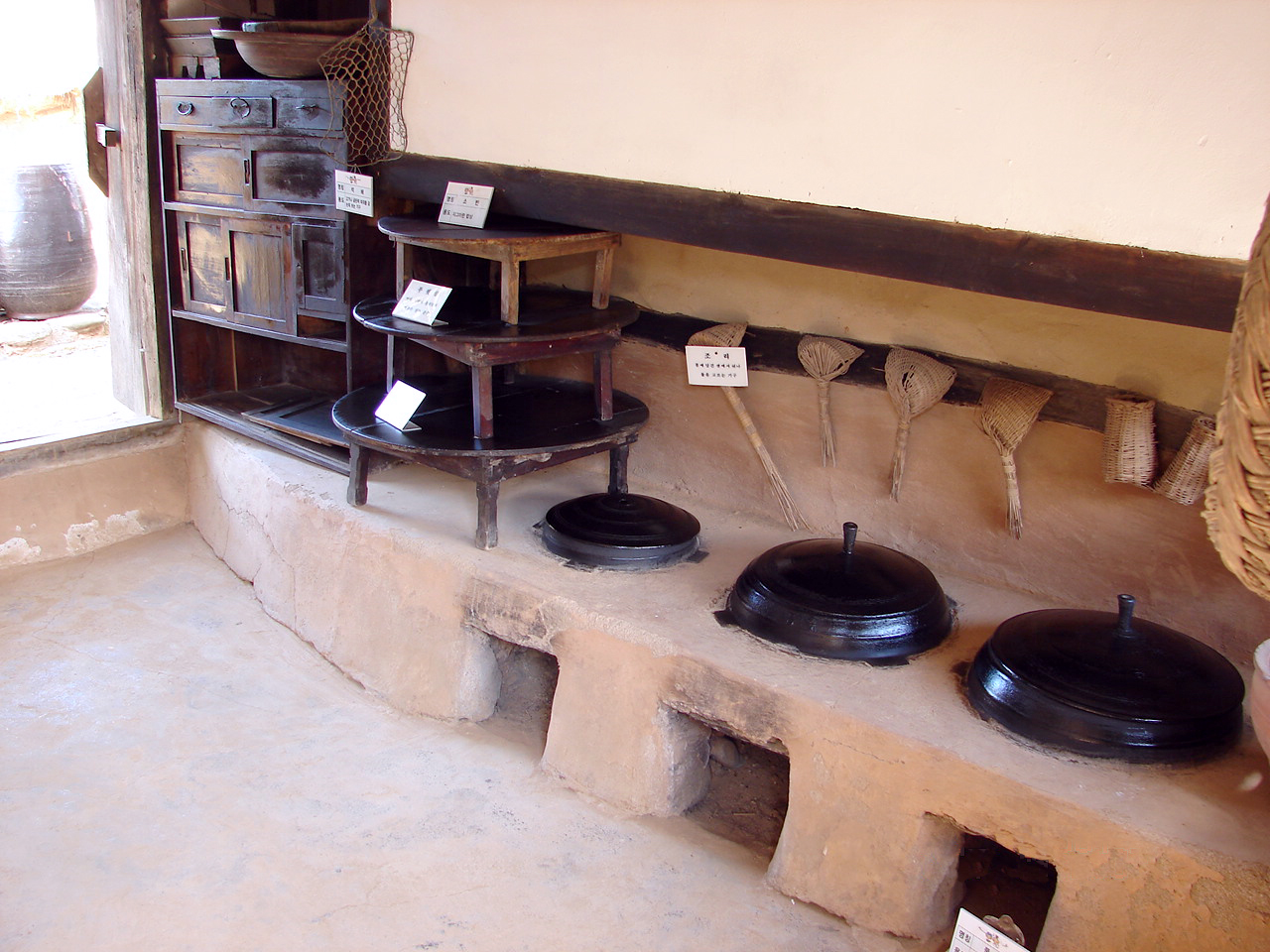 Kitchen Hwangseok-ri House - This wooden construction was originally built in Hwangseog-ri in late years of the Joseon Dynasty and was moved in the complex in 1985. The house has a kitchen, two rooms and a Sarangbang (a small separated house for men). There was a unique technique used to connect the angled pillars to the floor leading the kitchen of the Sarangbang. Cheongpung Cultural Properties Complex - located by the Chungjuho Lake. This complex is a reconstructtion of Cheongpung, a village that became submerged after the construction of Chungju Dam. It took three years to relocate the buildings and structures in the current site at a cost of of over 1.6 trillion won. Designated North Chungcheong Province Tangible Cultural Property #84.